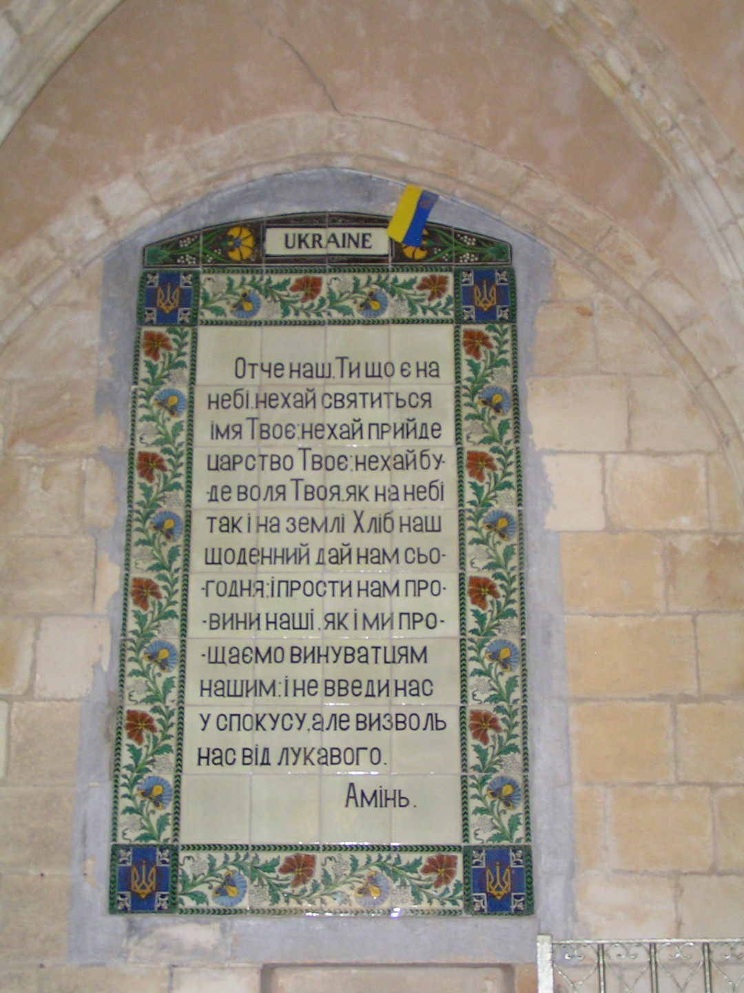 Lord's Prayer in the church of the Pater Noster